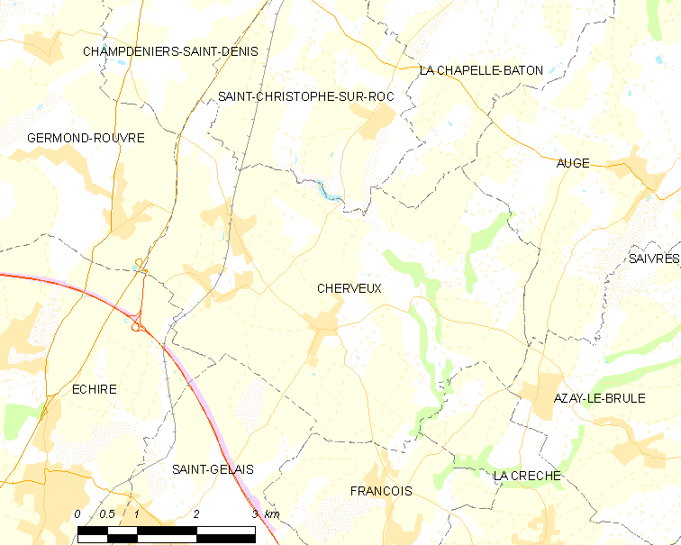 Map of French municipality Cherveux